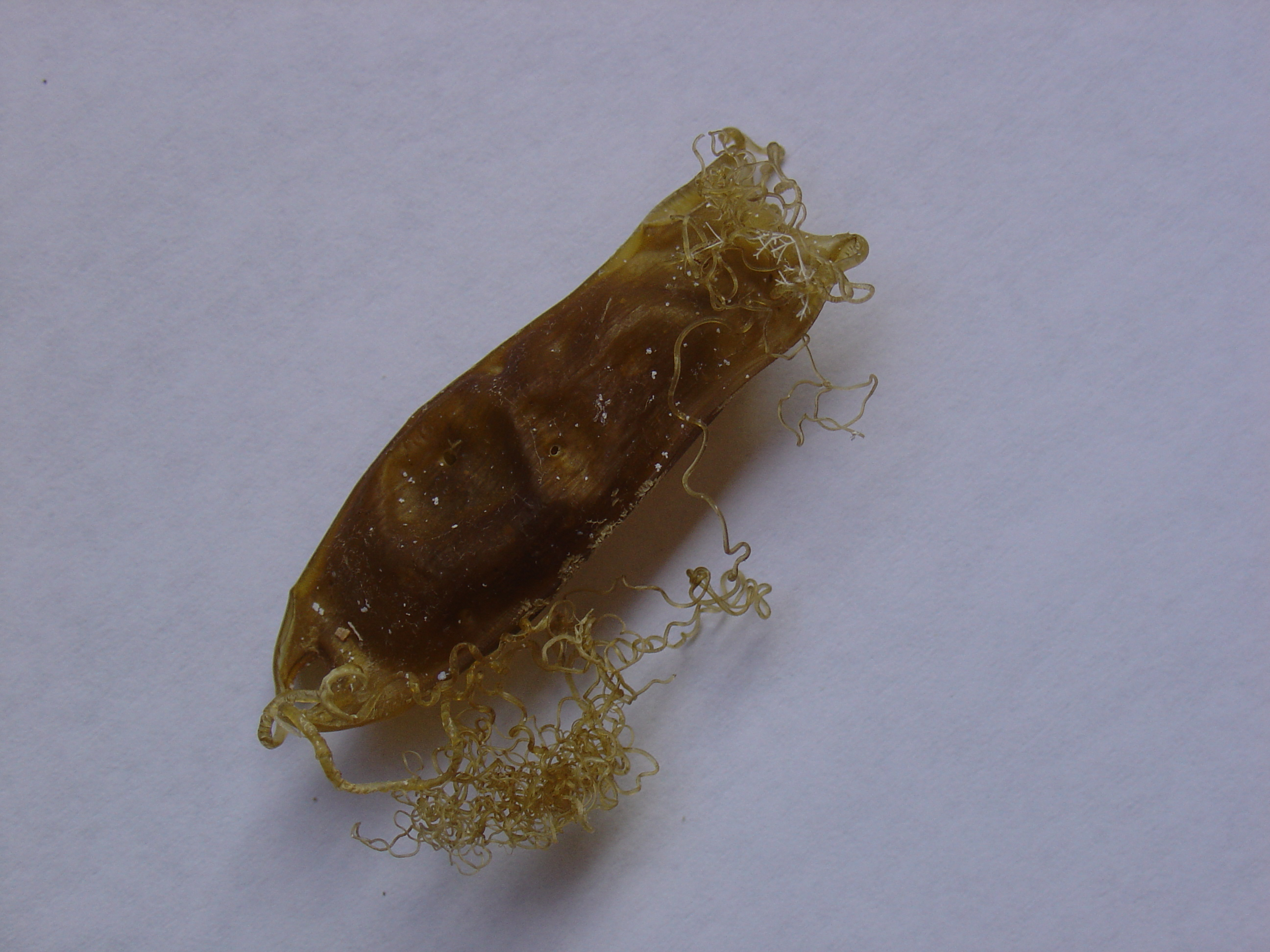 Chondrichtyes egg, undetermined species, probably of a Carcharhiniformes species. Found in Cabo de Palos, Murcia, Spain